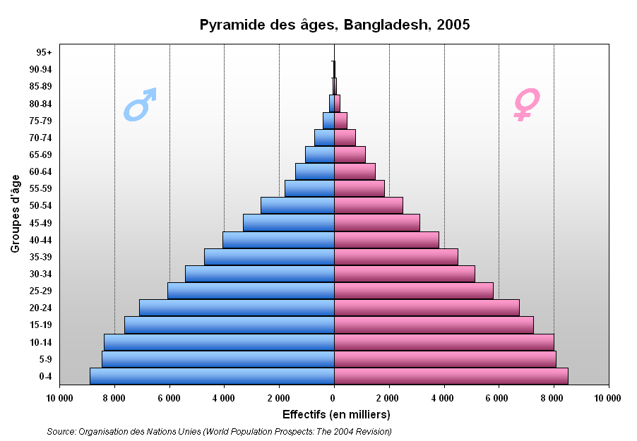 Bangladesh Population pyramid, 2005